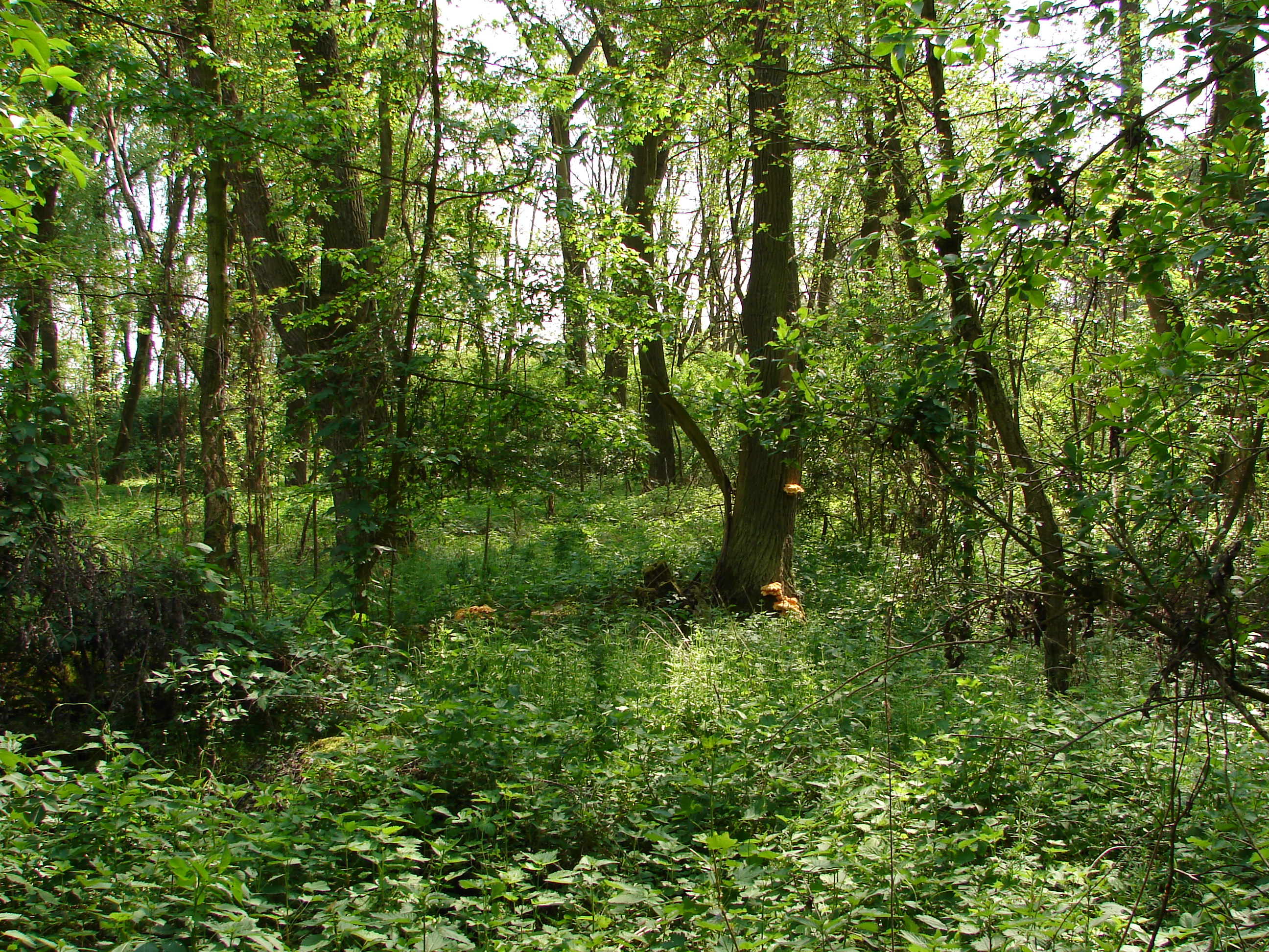 Natural monument V olších in Brno-venkov District, Czech republic.